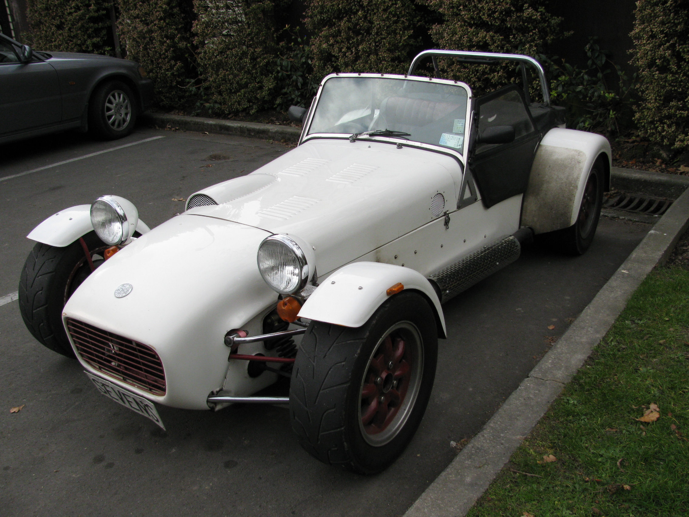 SEVENS This was an odd find in the University car-park - I can't think of anyone who would want to drive one of these to work or lectures every day. It began raining shortly after I snapped this, so I hope the owner (who I think was in the building opposite it - you can't see it here) got out and put up the soft-top on soon after. It's a homebuilt car, and is currently fully registered and warranted until December. If there was such a person who'd drive one of these everyday, I'm sure they would have plenty of fun!